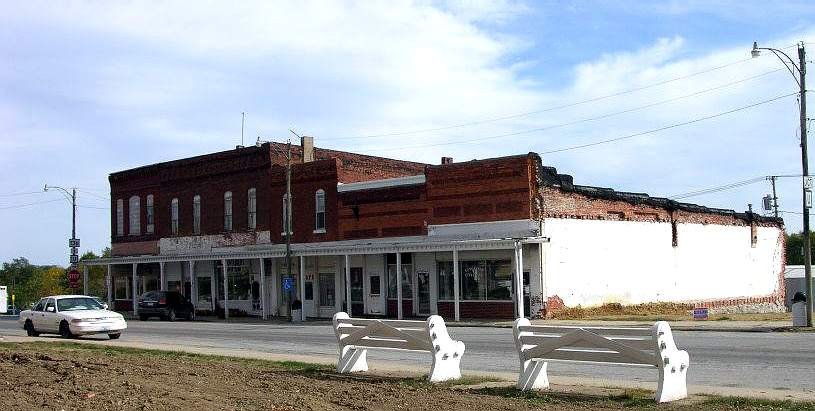 City hall and other businesses. Lancaster, Missouri. September, 2012.